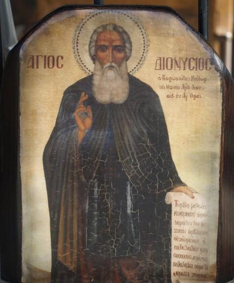 Icon of Orthodox Saint of Saint Dionysius, creator of the Monastery οf Saint Dionysios in Agio Oros